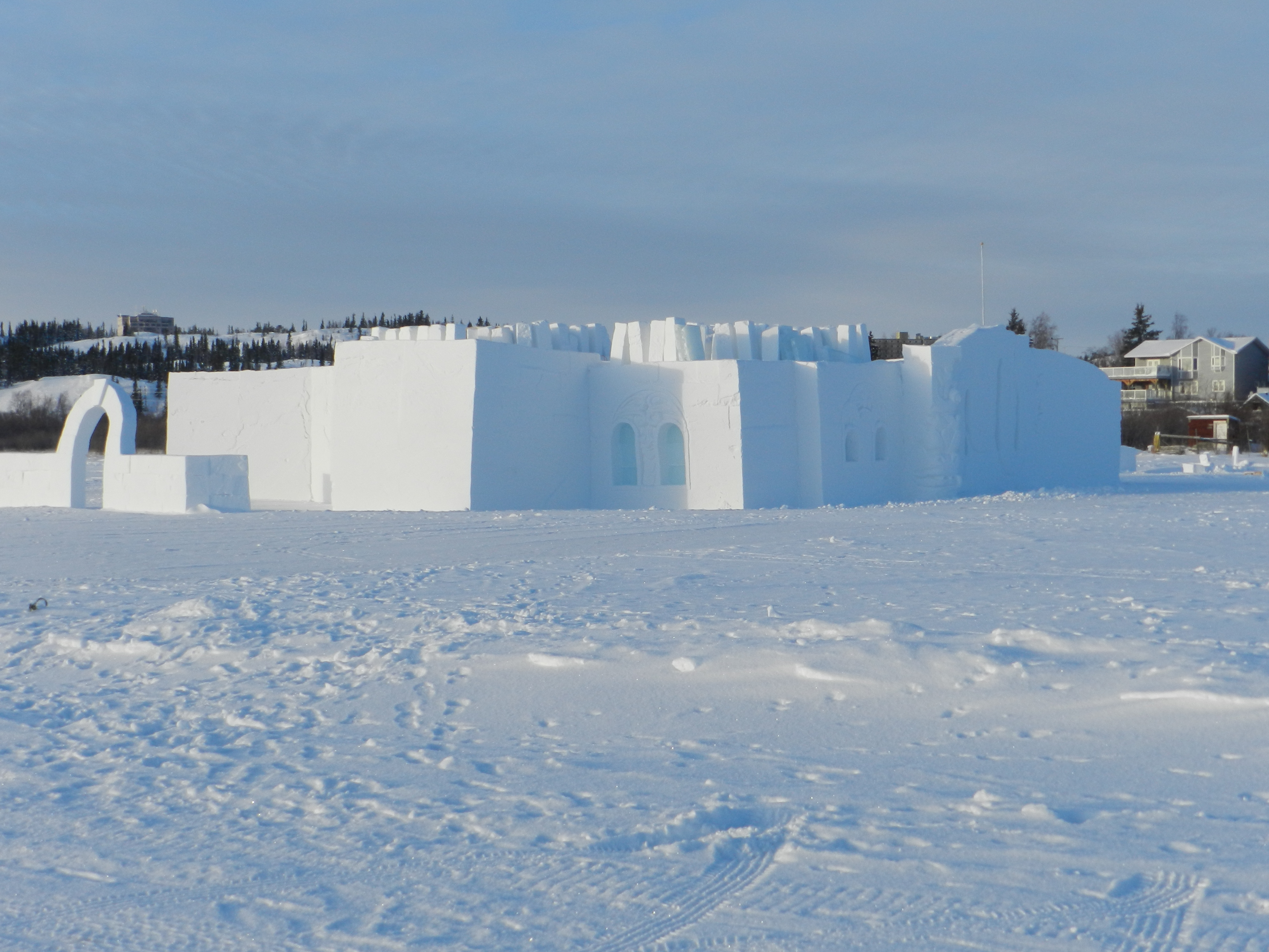 Annual snowcastle under construction on Great Slave Lake